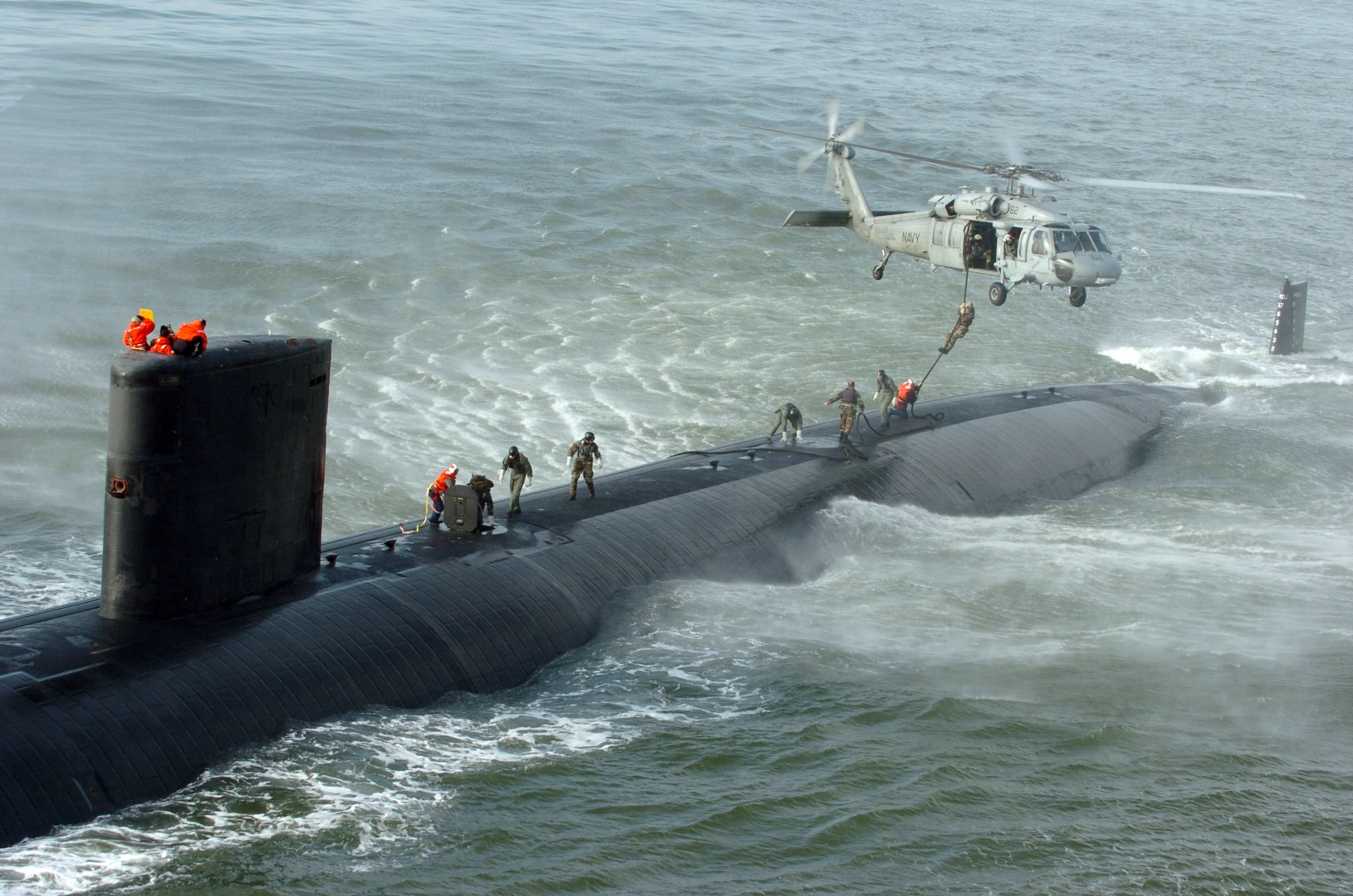 Atlantic Coast (Jan. 17, 2005) – A SEAL delivery vehicle team (SDV) performs a fast-roping exercise from a MH-60S Seahawk helicopter to the topside of Los Angeles-class fast attack submarine USS Toledo (SSN 769). SDV teams use "wet" submersible vehicles to conduct 100 percent long-range submerged missions, or to secretly deliver SEALs and other agents onto enemy territory from a submarine or other vessel at sea. U.S. Navy photo by Journalist 3rd Class Davis J. Anderson (RELEASED)